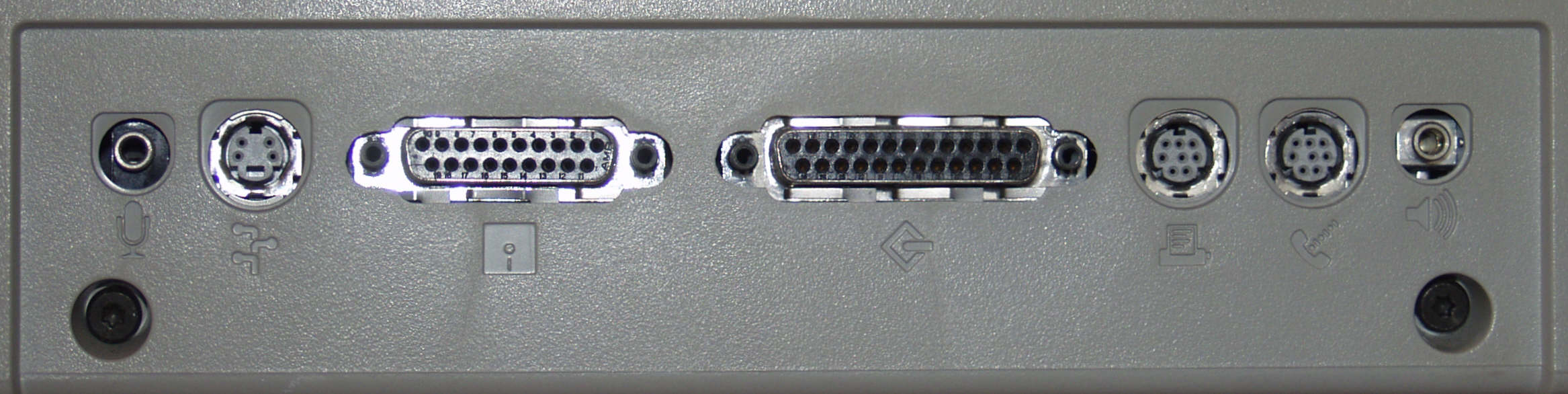 The rear panel of an Apple Macintosh Classic II computer showing the ports in detail.From left to right: microphone,ADB,floppy,SCSI,printer(serial),modem(serial) and headphones.